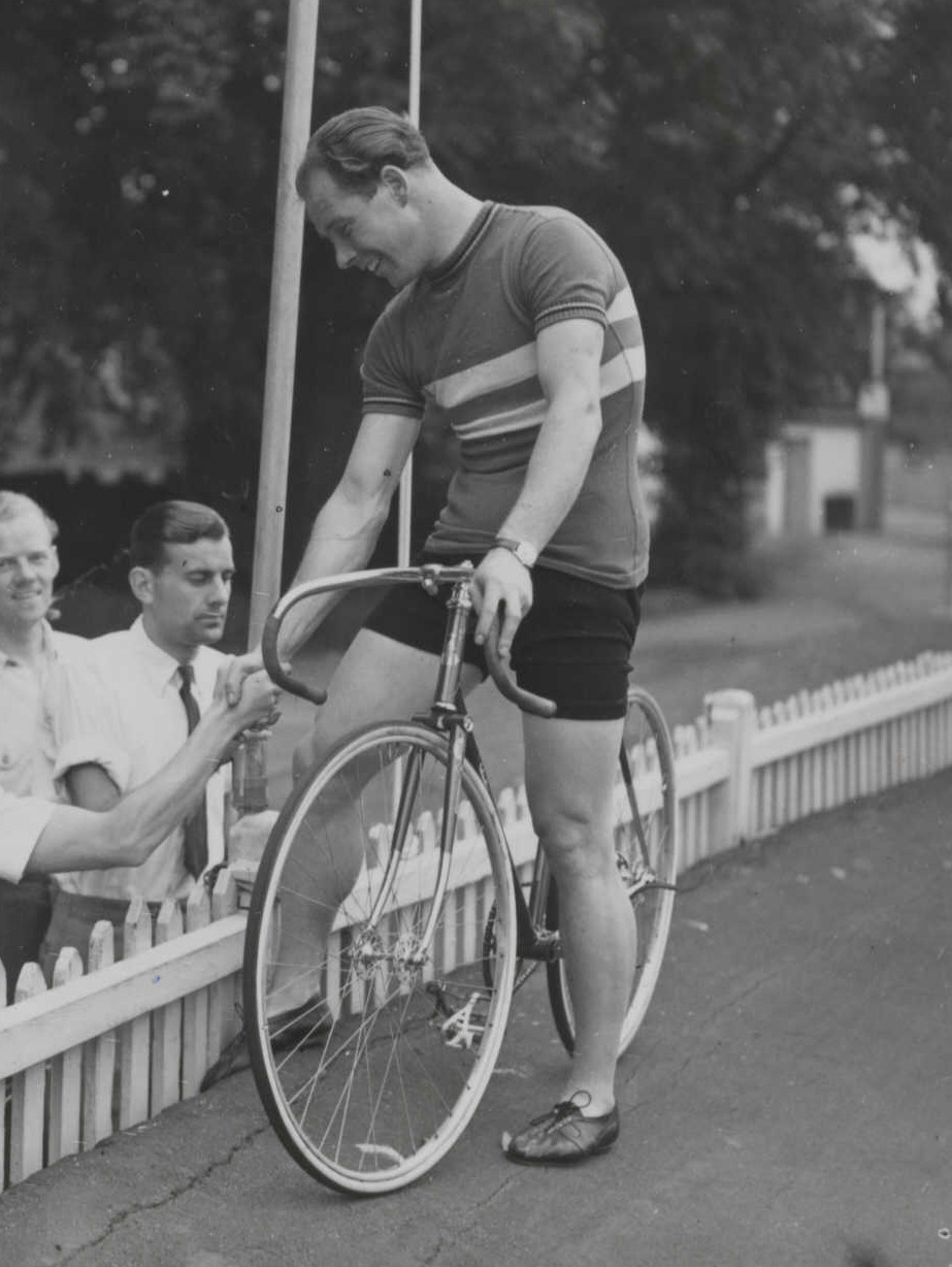 Reg harris is greeted by some of the Danish cycle team whilst training at Herne Hill. Reg Harris (1920-1992) was a Lancashire born cyclist who won two silver medals at the 1948 Olympics. In 1974 he staged a late comeback winning a British Cycling title at the age of 54. Daily Herald Archive at the National Media Museum